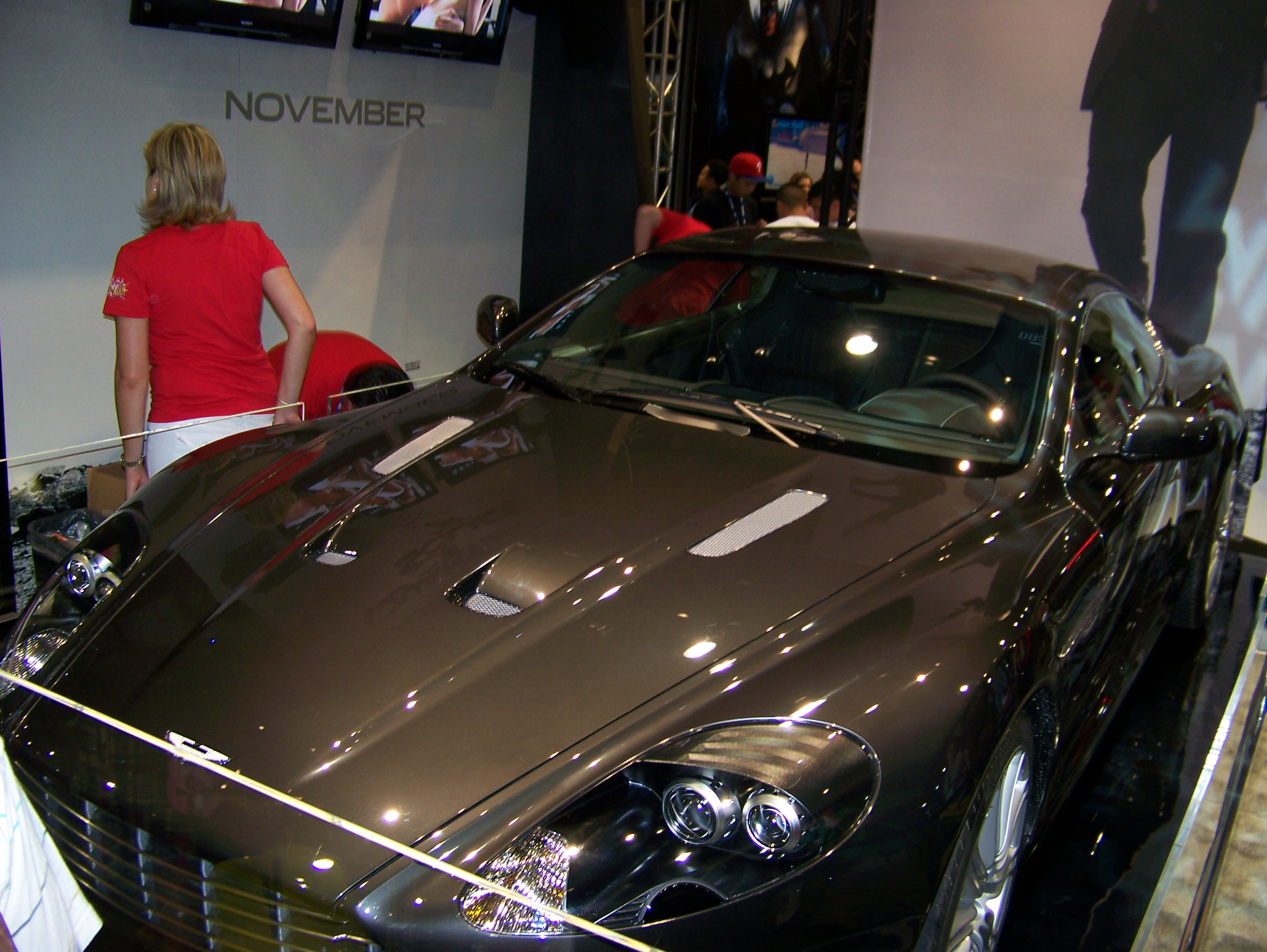 The Aston Martin DBS V12 used for the 2008 film "Quantum of Solace" at the 2008 Comic-Con convention in San Diego, California.